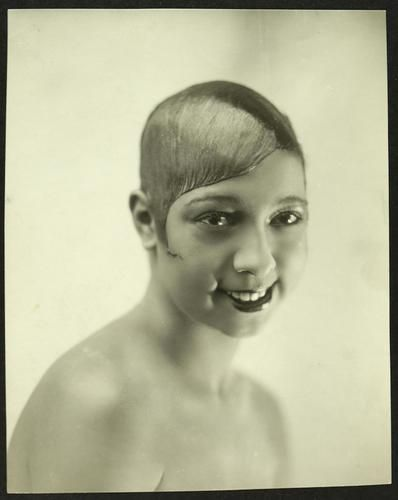 Henri Manuel (24 April 1874, Paris – 11 September 1947, Neuilly-sur-Seine) was a Parisian photographer who served as the official photographer of the French government from 1914 to 1944.